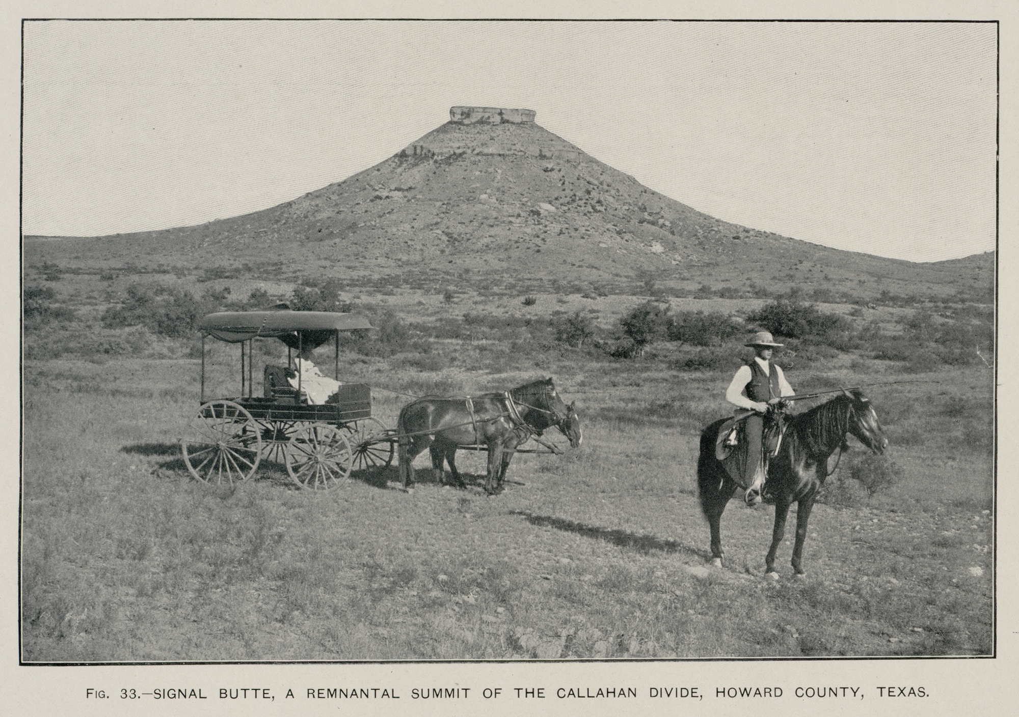 Signal Peak near Big Spring, Texas (Texas Geological Survey, 1889) (USGS photo, 1900)